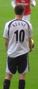 Robbie Keane during a match against Arsenal